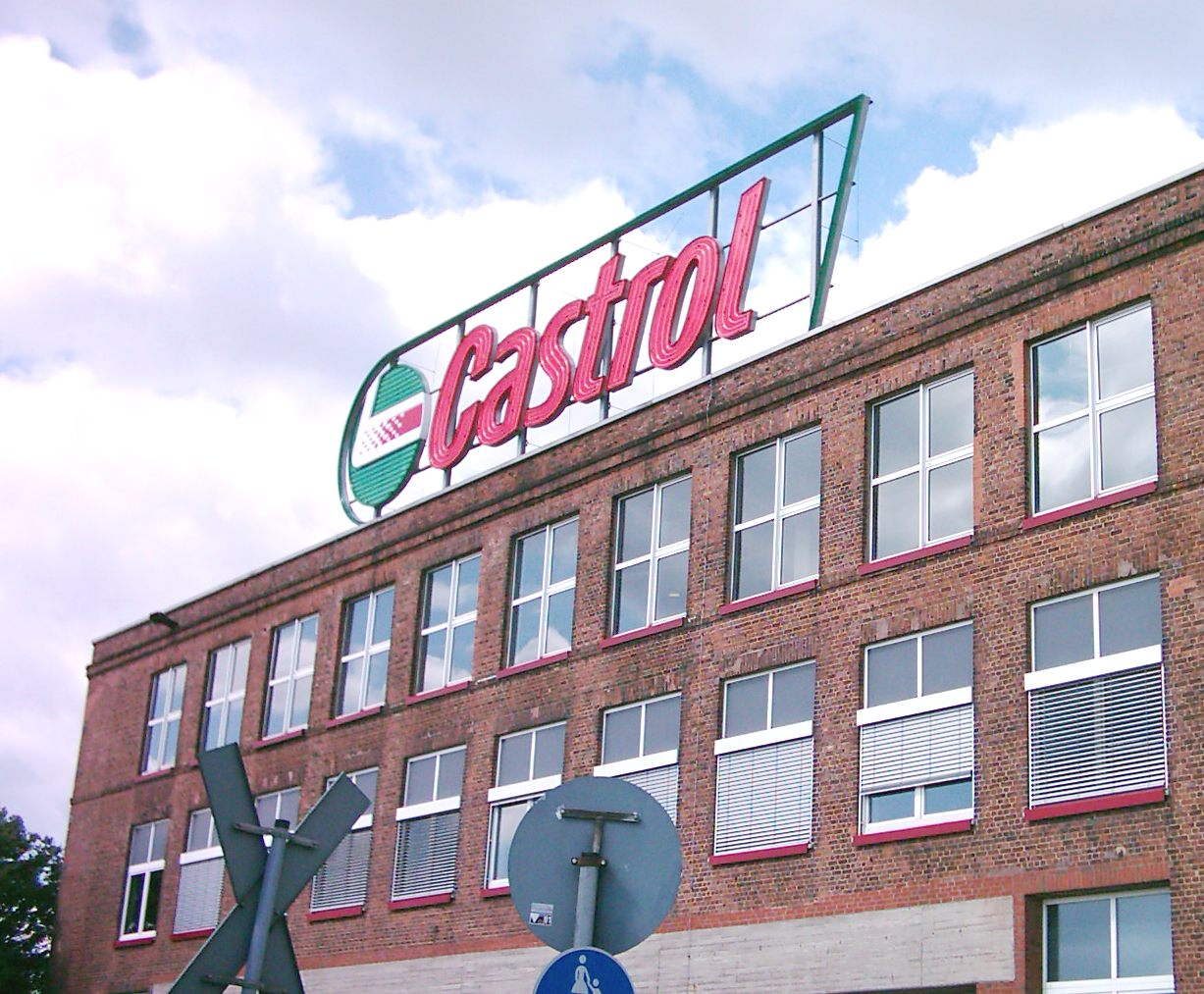 Illuminated advertising of Castrol in Hamburg, Germany.